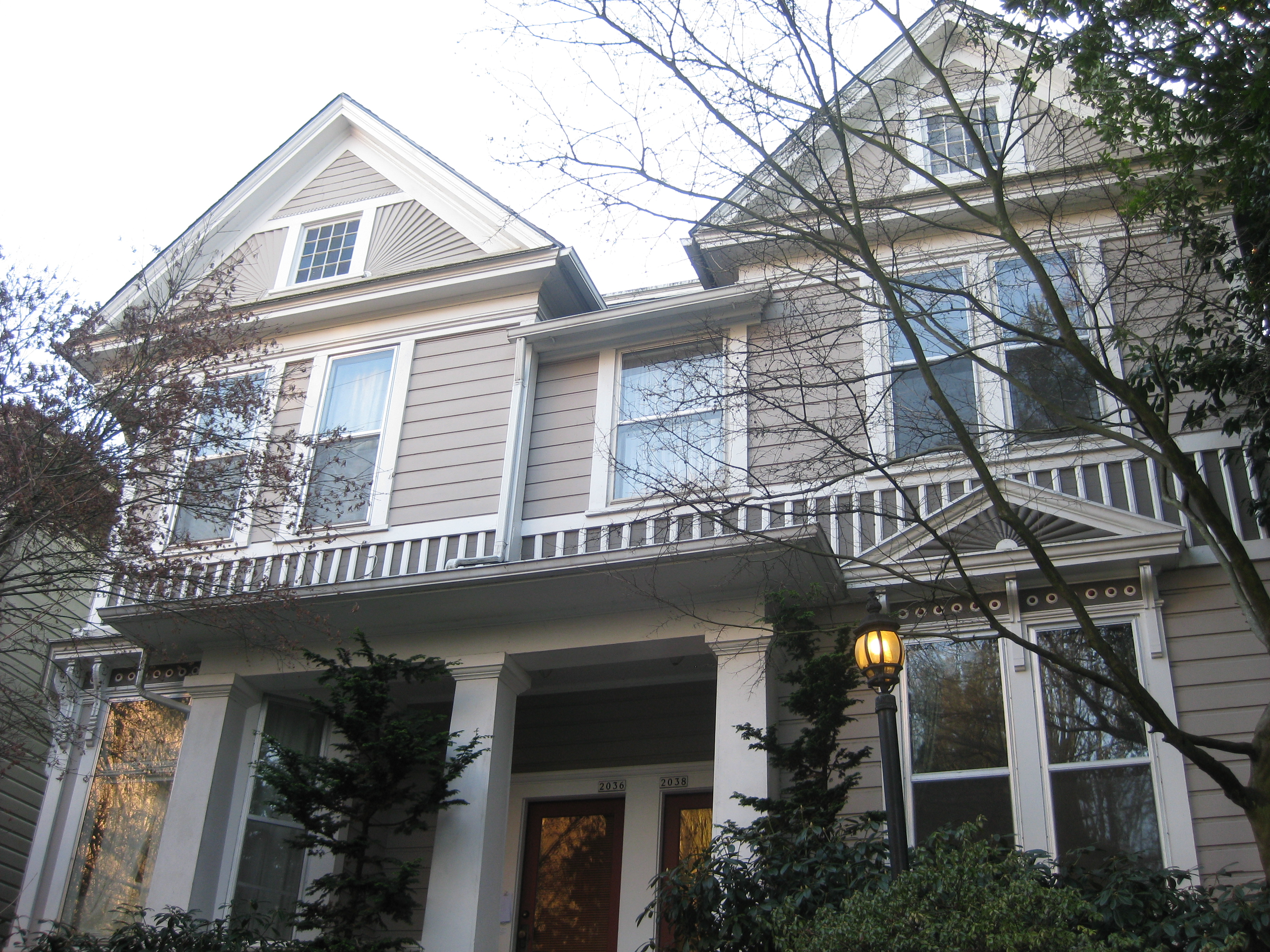 The historic Rosamond Coursen & Walter R. Reed House (built 1887) located at 2036-2038 SW Main St in Portland, Oregon, United States, is listed on the US National Register of Historic Places (NRHP). It is also part of the NRHP-listed King's Hill Historic District.NRHP reference number 90000288